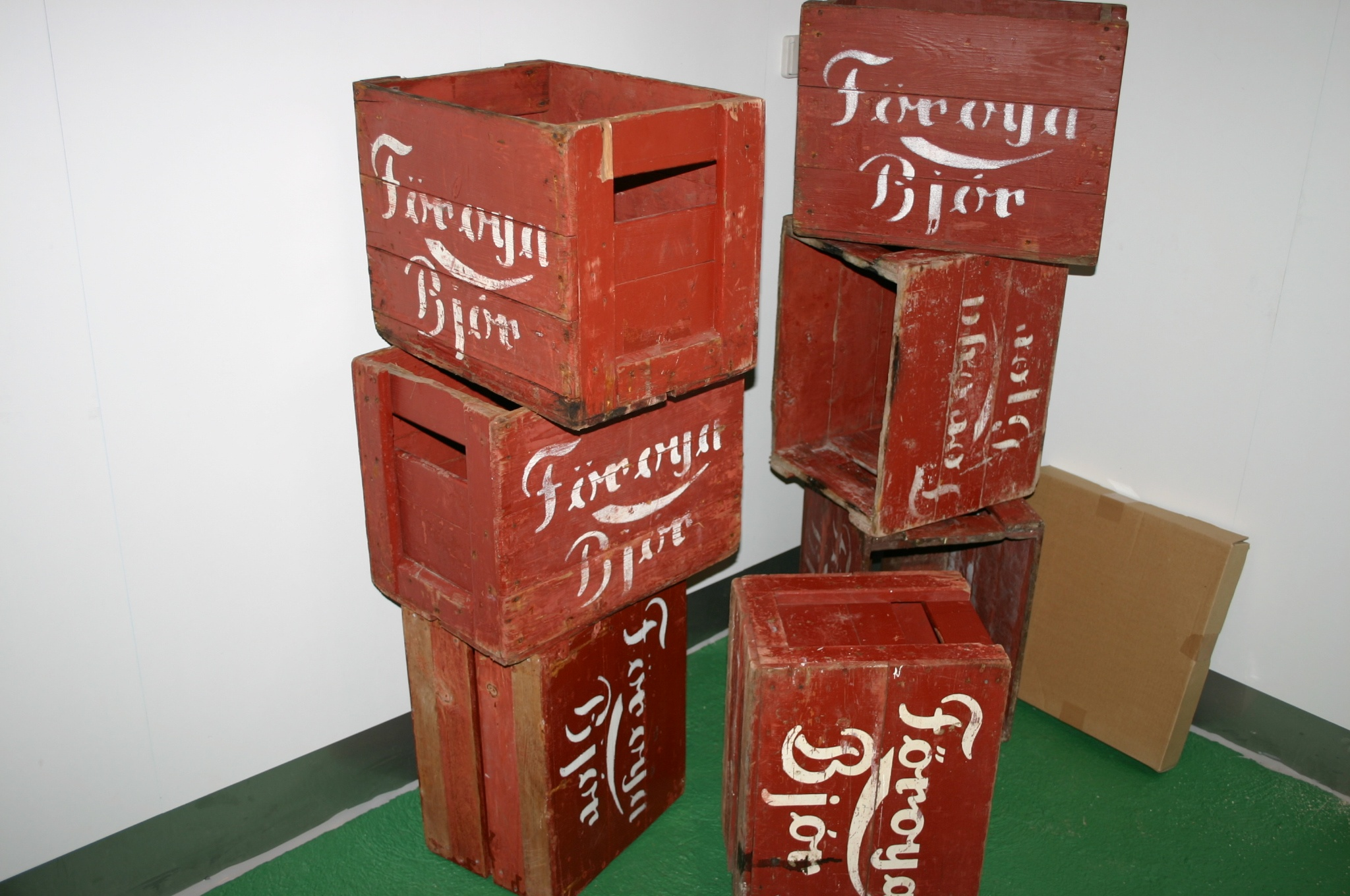 Föroya Bjór, Faroe Islands: Old beer crates